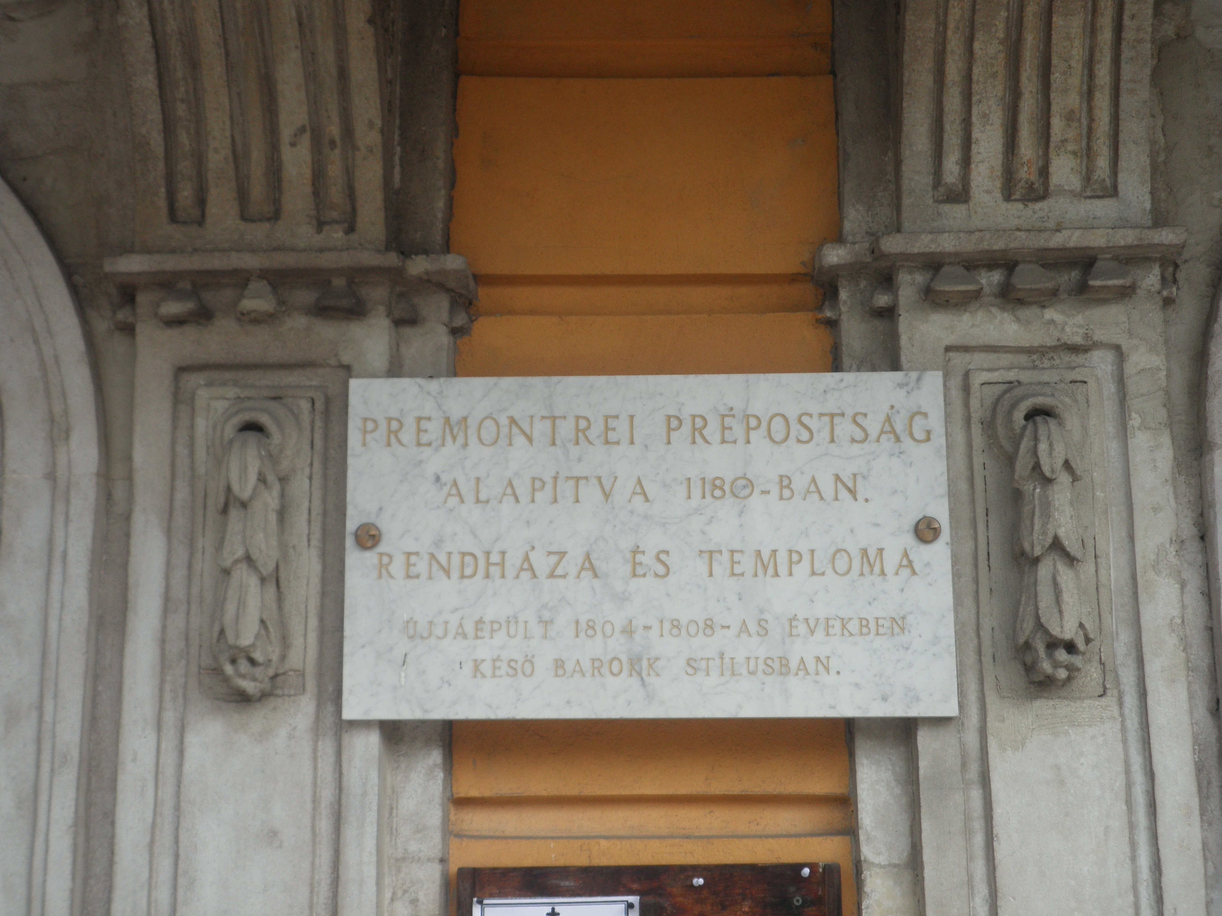 Premonstratensian Abbey, Csorna, Hungary